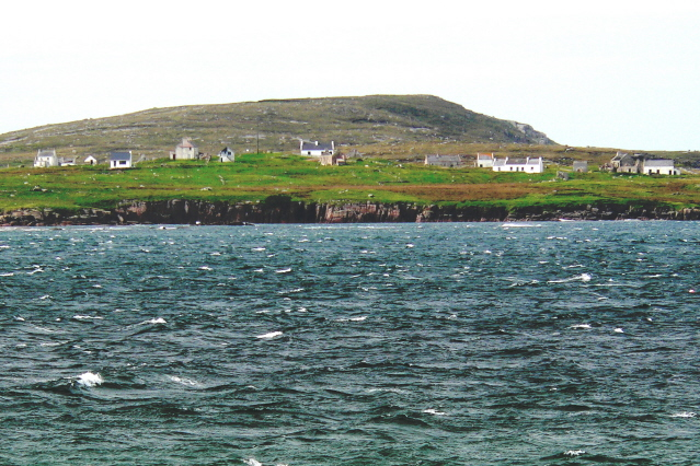 Derrybeg - Gola Island from pier on Gweedore Bay Shown across Gweedore Bay looking west is Gola Island. Looks like high tide and wind driven choppy water. Photo was taken with hand held camera with a 432mm zoom lens and image stabilization.